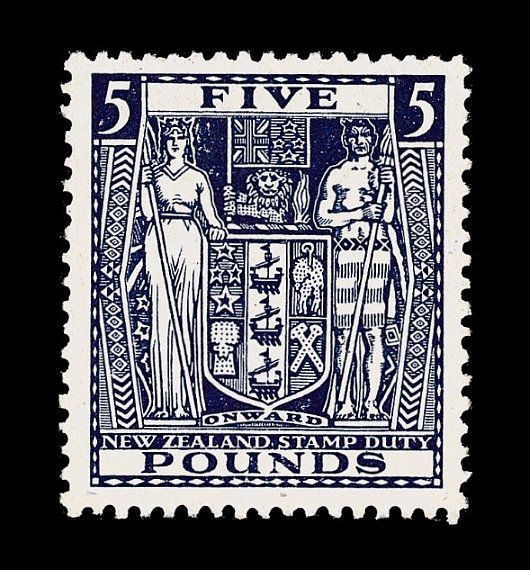 In 1929, the New Zealand Post Office commissioned the Englishman H. L. Richardson, an artist and teacher at the Wellington Technical College, to design a series of fiscal revenue stamps, or duty stamps. The design employed the New Zealand coat of arms in a variety of colours depending on the value of the stamp. Richardson erroneously had the lion in the crest of the arms hold aloft a New Zealand flag instead of the Union Jack that he was supposed to carry. Richardson’s stamps were withdrawn from use in 1967 when New Zealand’s currency was decimalised.